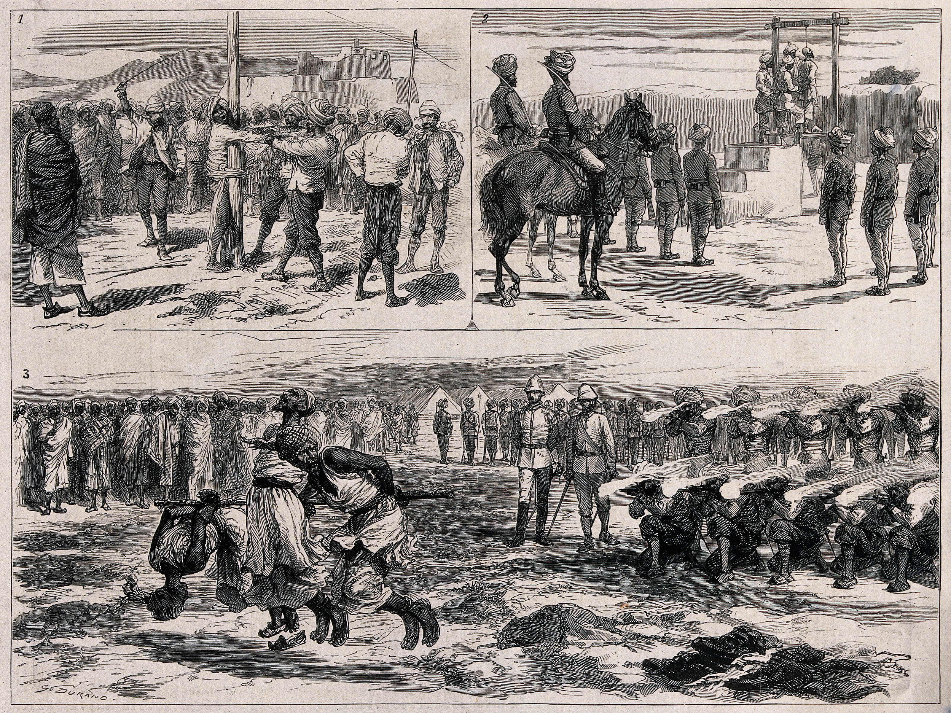 Punishments in camps during the Afghan wars, including flogging, hanging and the shooting of Afghans while tied to a rod. Wood-engraving after Godefroy Durand. Iconographic Collections Keywords: Godefroy Durand